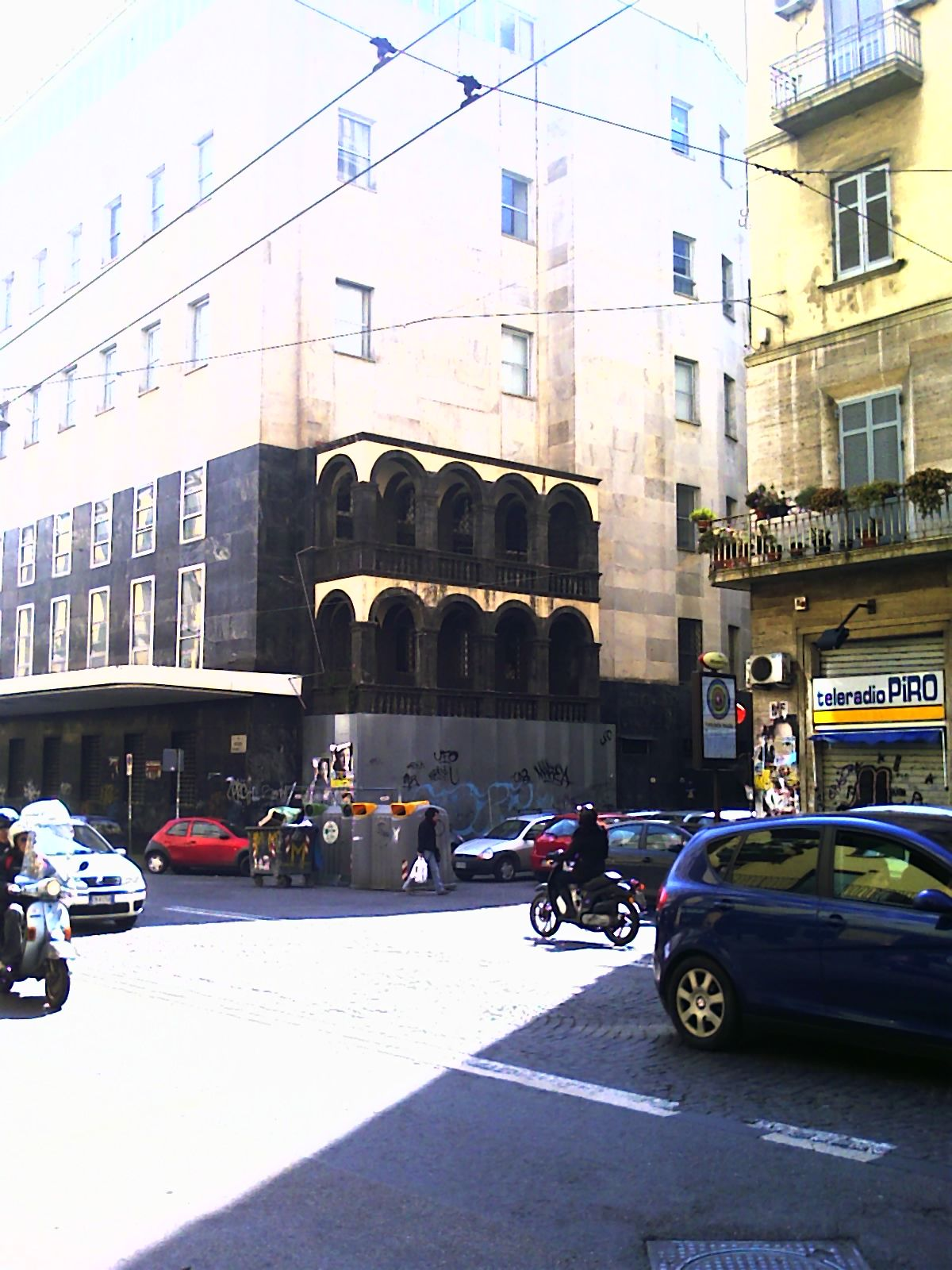 Loggia